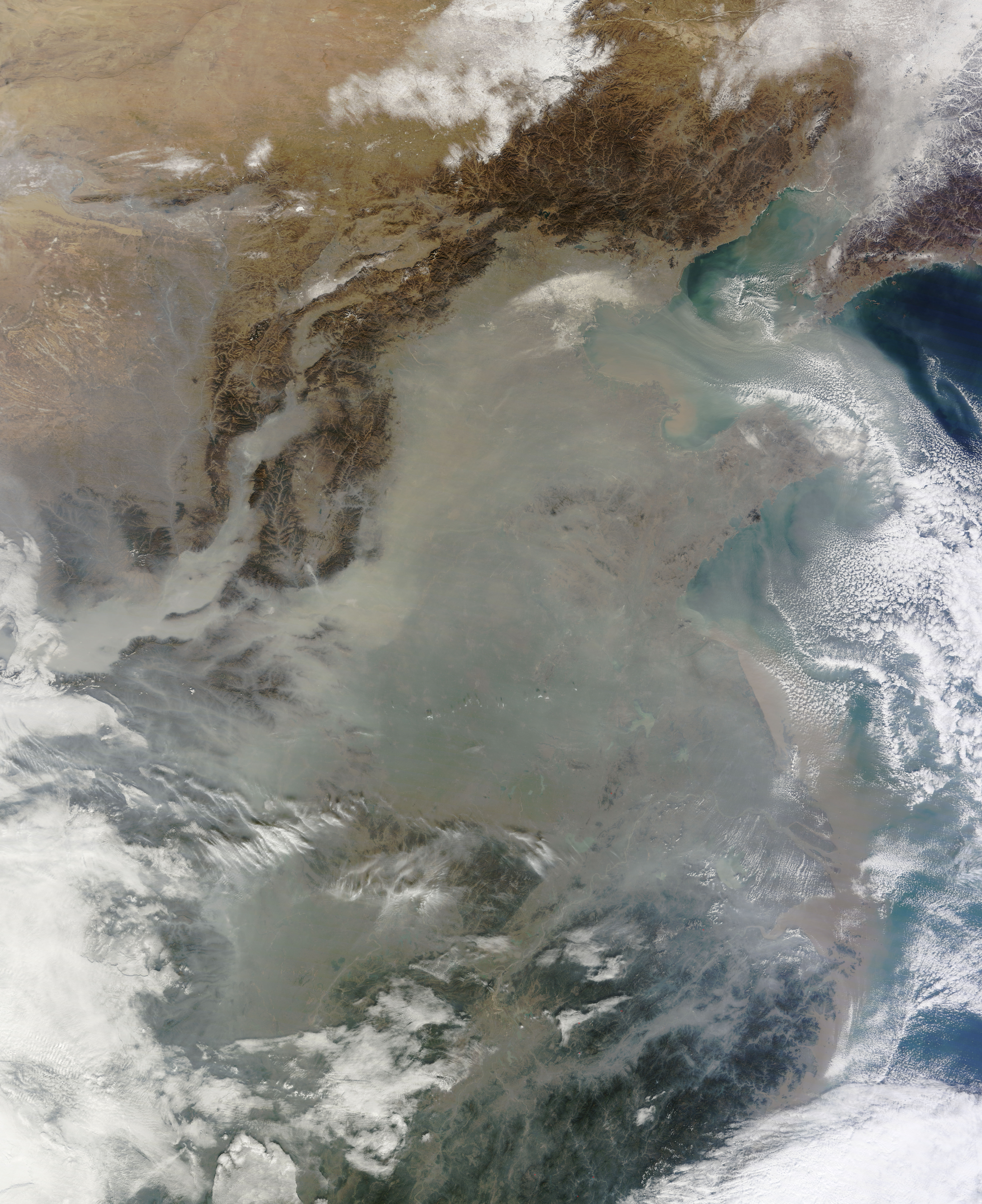 The skies over northern China were shrouded with a thick haze in late December, 2013. The Moderate Resolution Imaging Spectroradiometer (MODIS) aboard the Terra satellite captured this true-color image on December 23.